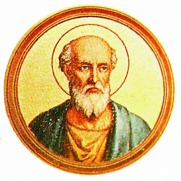 Portrait of Pope Evaristus un the Basilica of Saint Paul Outside the Walls, Rome